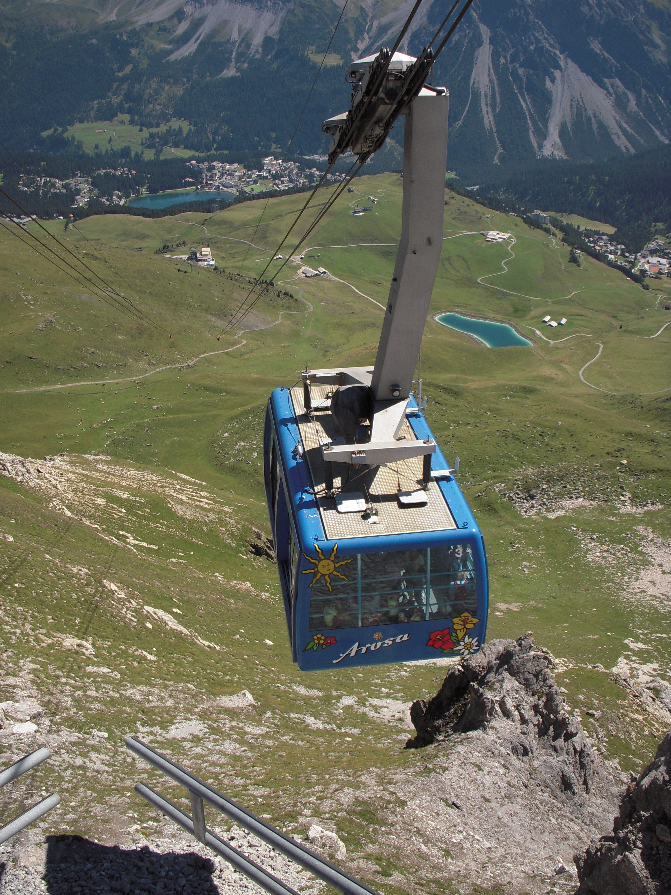 Arosa - Weisshorn Cableway, Arosa, Graubünden, Switzerland. August 17, 2012.